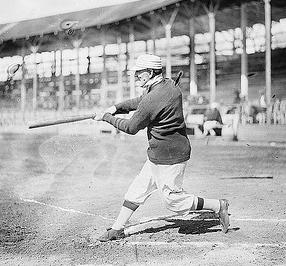 1912 photograph of Harl Maggert of the Philadelphia Athletics.